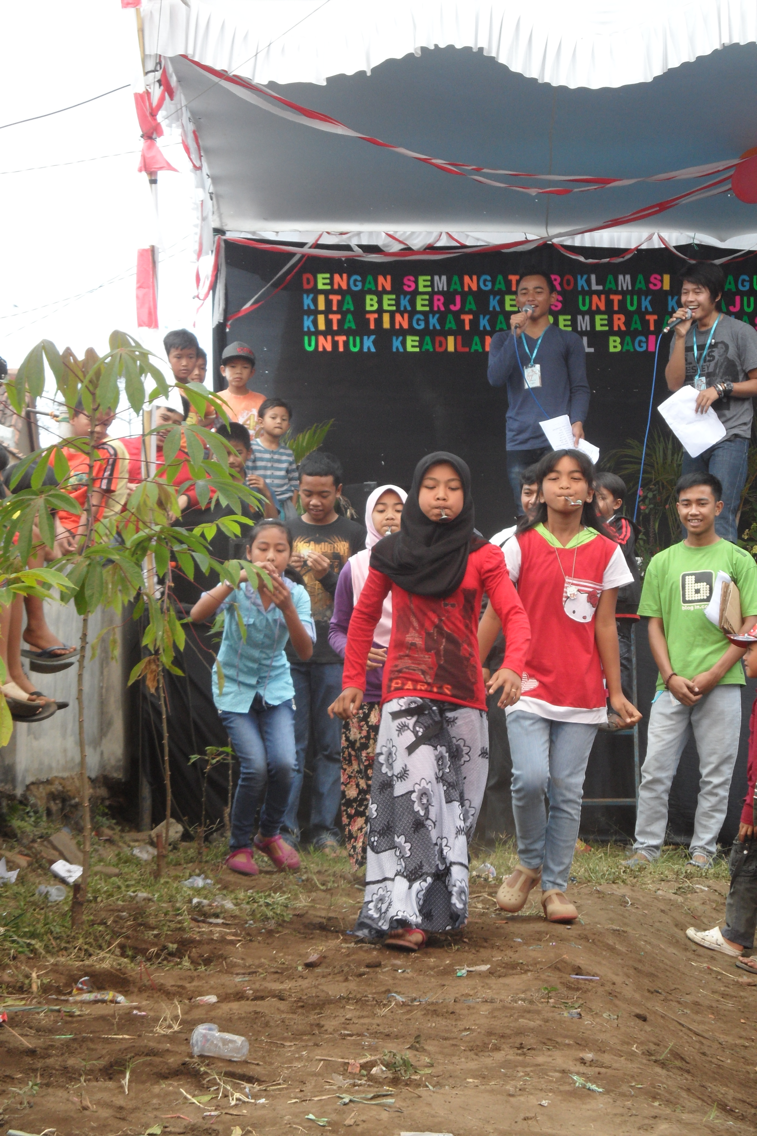 Marble spoon race, Indonesian Independence Day celebration